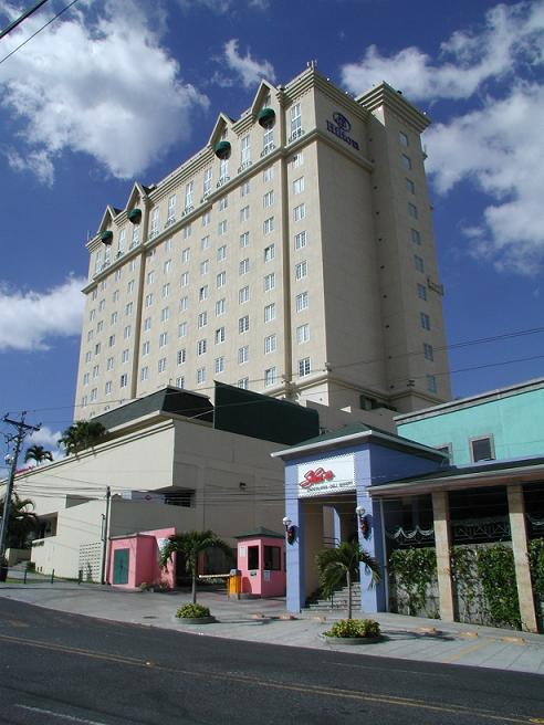 Hilton Princess hotel in San Salvador, El Salvador.